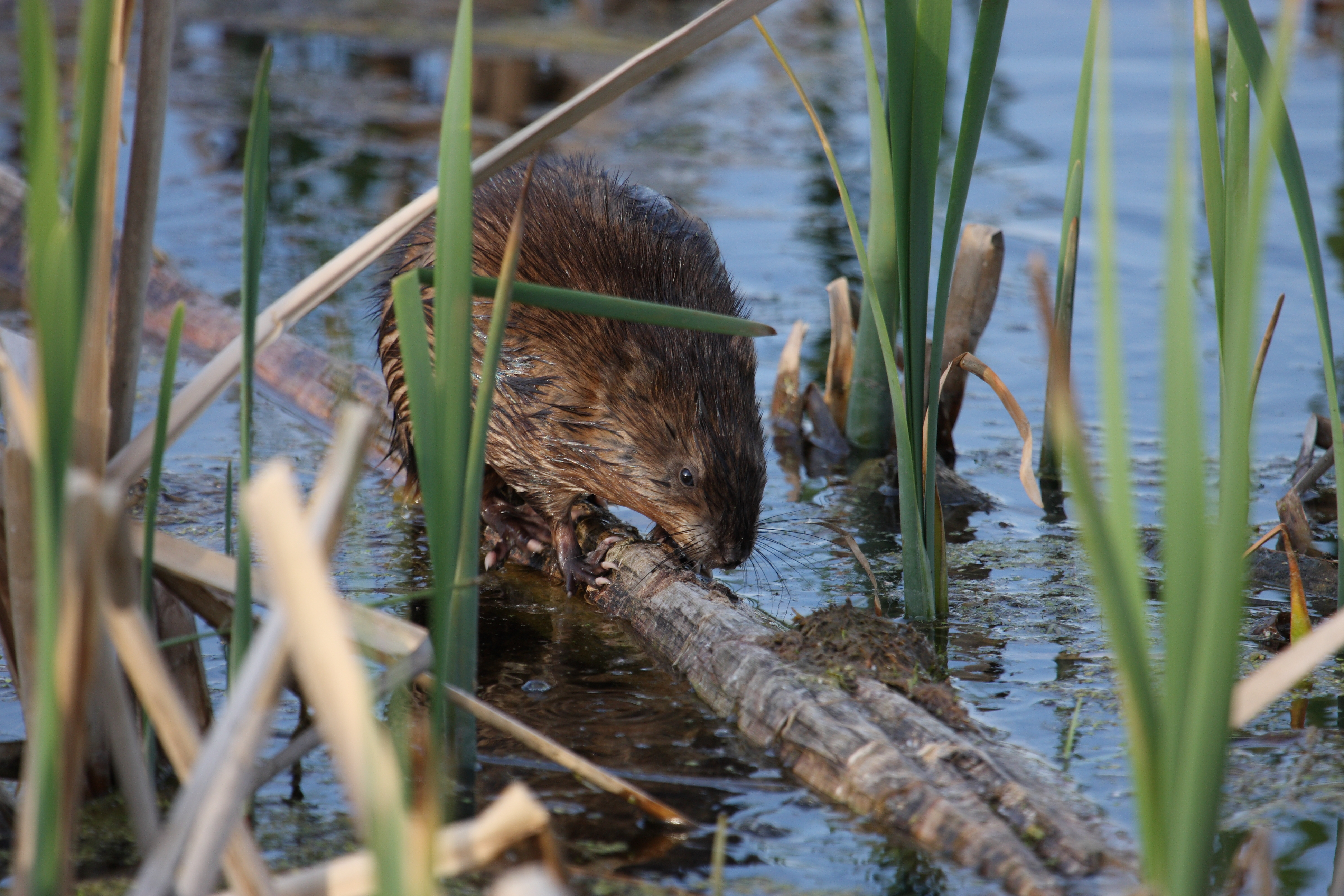 Muskrat (Ondatra zibethicus), Léon-Provancher marsh, Québec, Canada.